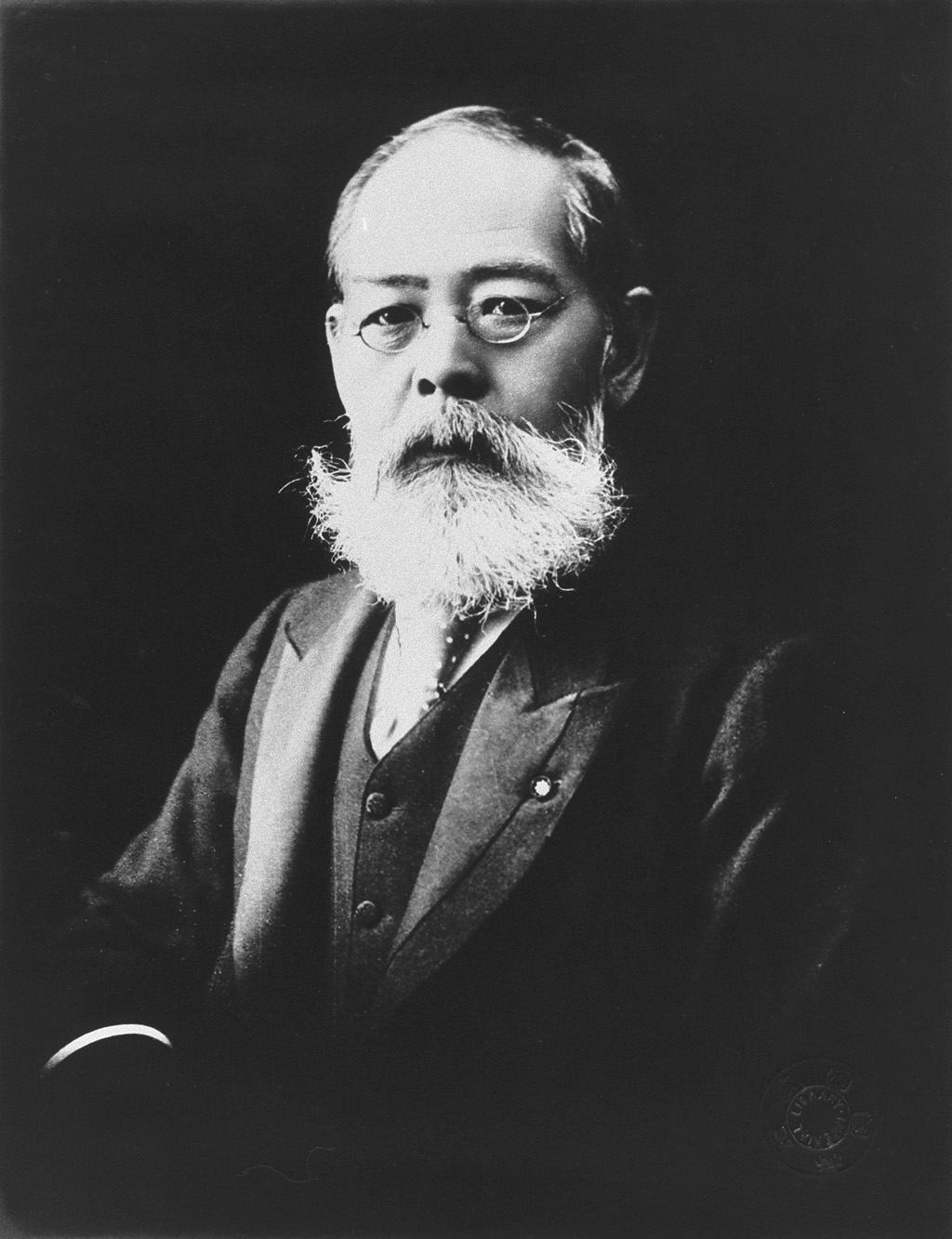 Portrait of Aoki Shuzo (青木周蔵, 1844 – 1914)